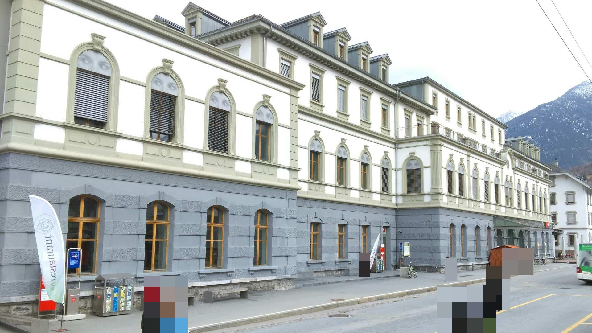 The station building at Brig railway station